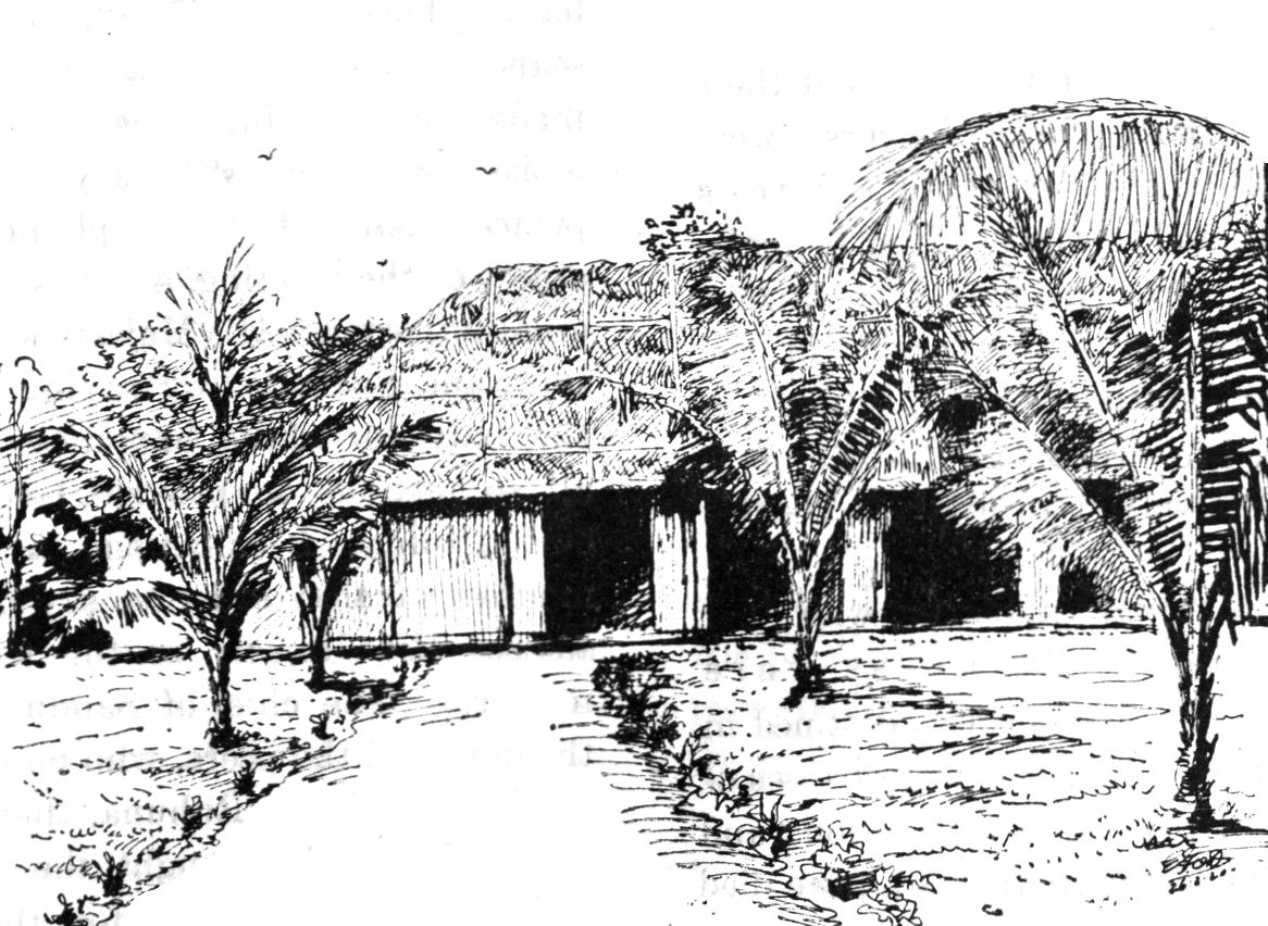 Building at Rosemead Place in the precinct of the Musæus Buddhist Girl's College Colombo.